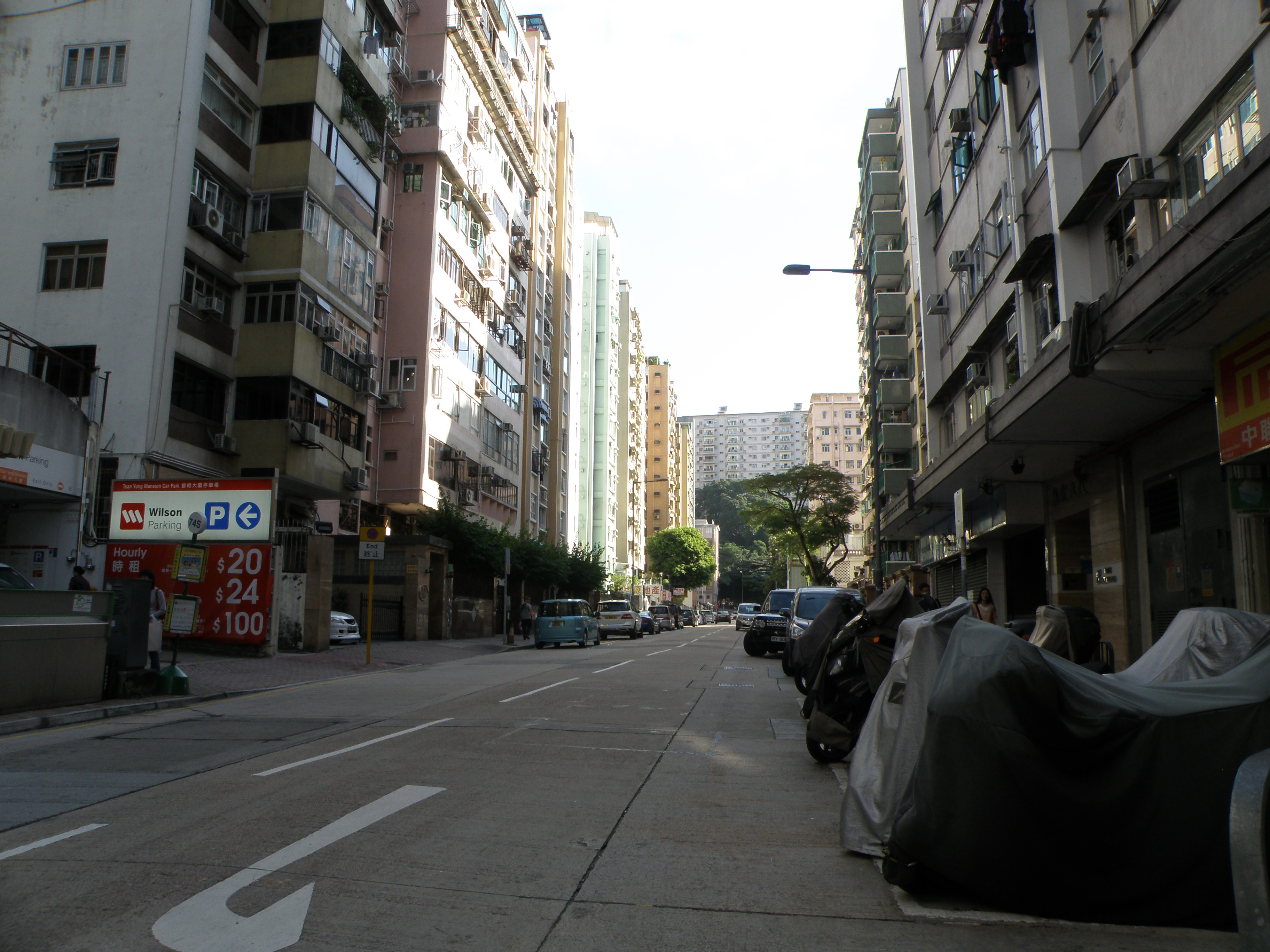 Ho Man Tin Street in Ho Man Tin, Hong Kong.